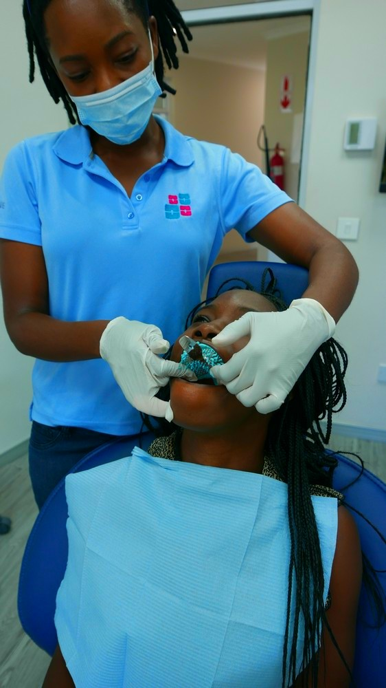 This is an image of "African people at work" from Zambia